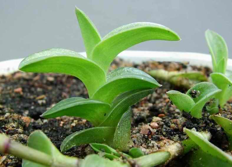 Tradescantia navicularis (collection de Khanon)